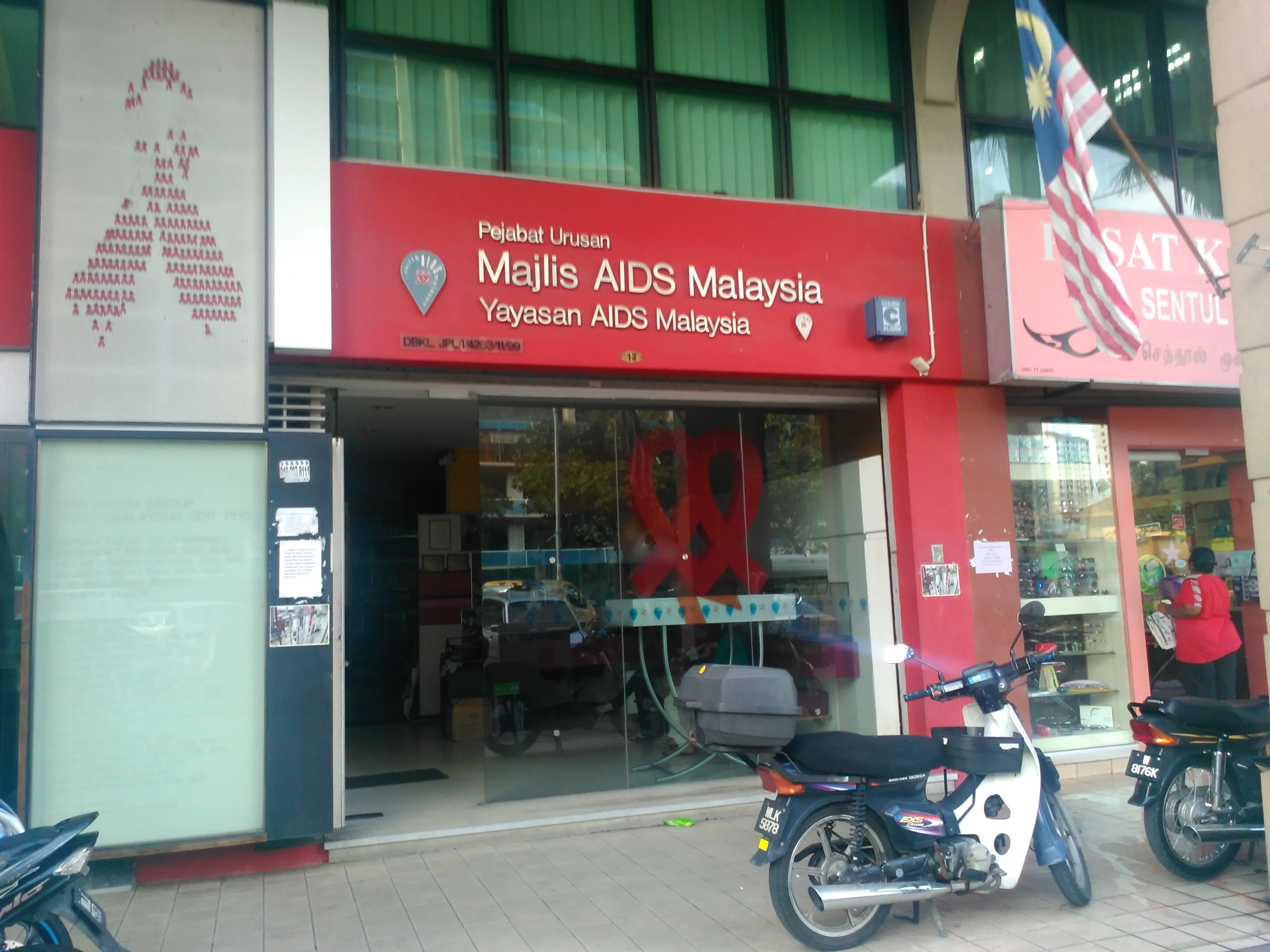 Malaysian AIDS Council - No 12, Jalan 13/48A The Boulevard Shop Office Off Jalan Sentul 51000 Kuala Lumpur MALAYSIA